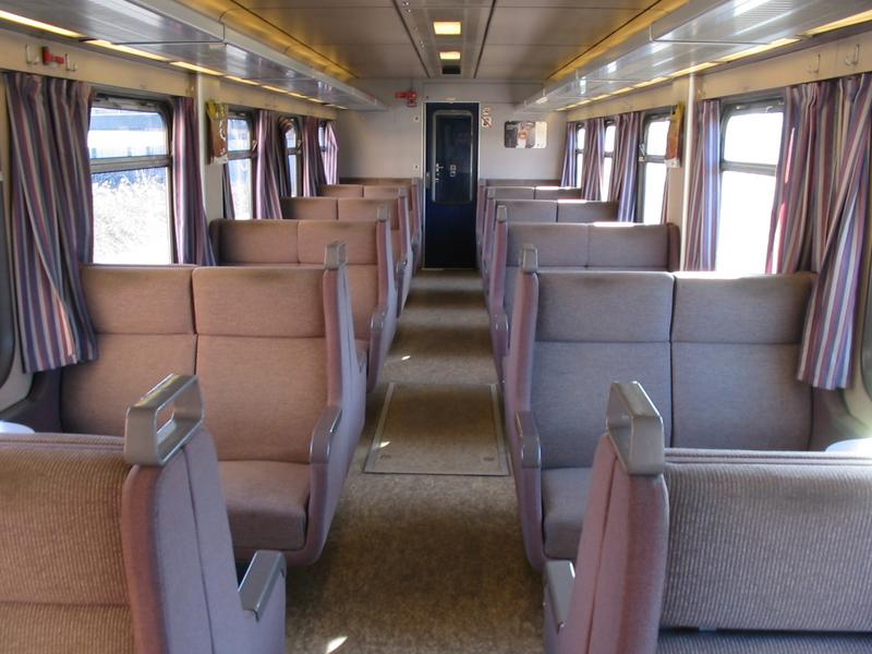 interior of a DSB regional train in Vendsyssel, Denmark (Aalborg-Frederikshavn line)